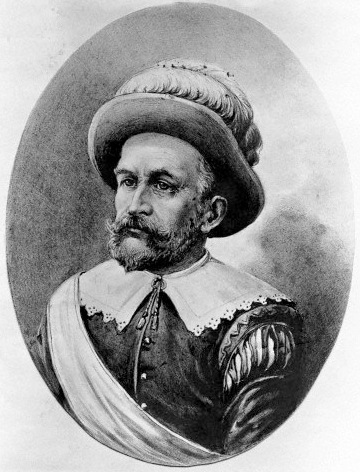 Peter Minuit, man who bought Manhattan for 24 dollars